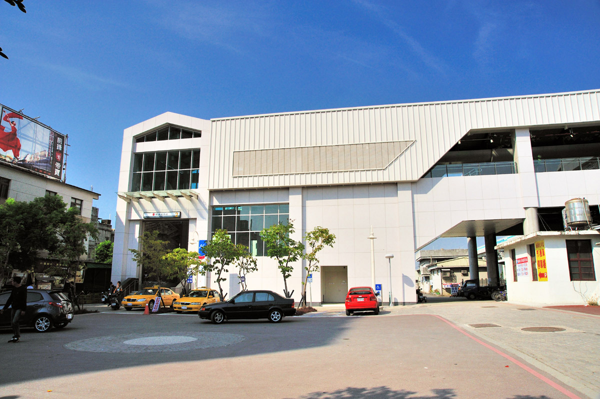 CiaoTou Station is a local train station of Taiwan's Western main rail line. It locates within the boundary of CiaoTou Township, KaoHsiung County. This photo shows the newly built station building sharing used by KRTCO and TRA.